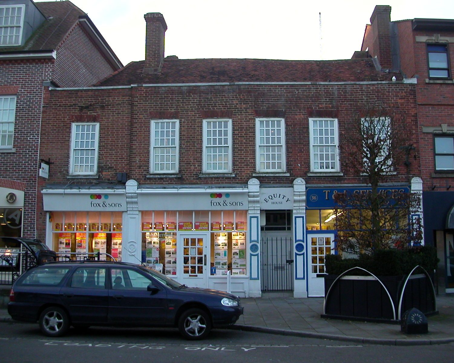 34 and 36 High Street, Crawley, West Sussex, England: late 18th-century brick building with sash windows, two chimneys and a tiled roof. Listed at Grade II by English Heritage (code 363353).